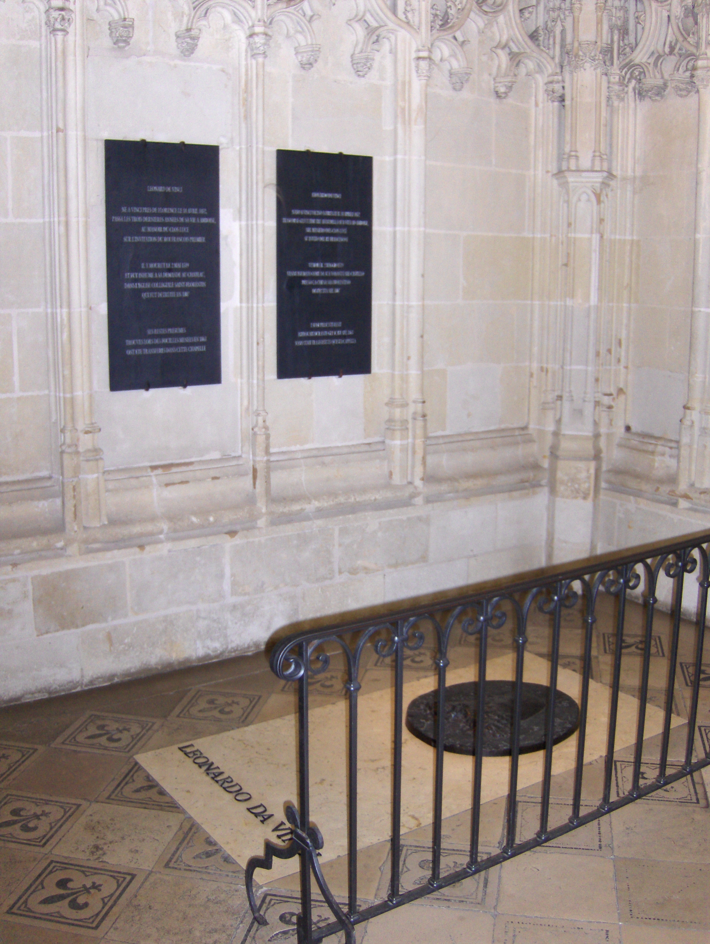 Grave of Leonardo da Vinci in the chapel of the château d'Amboise